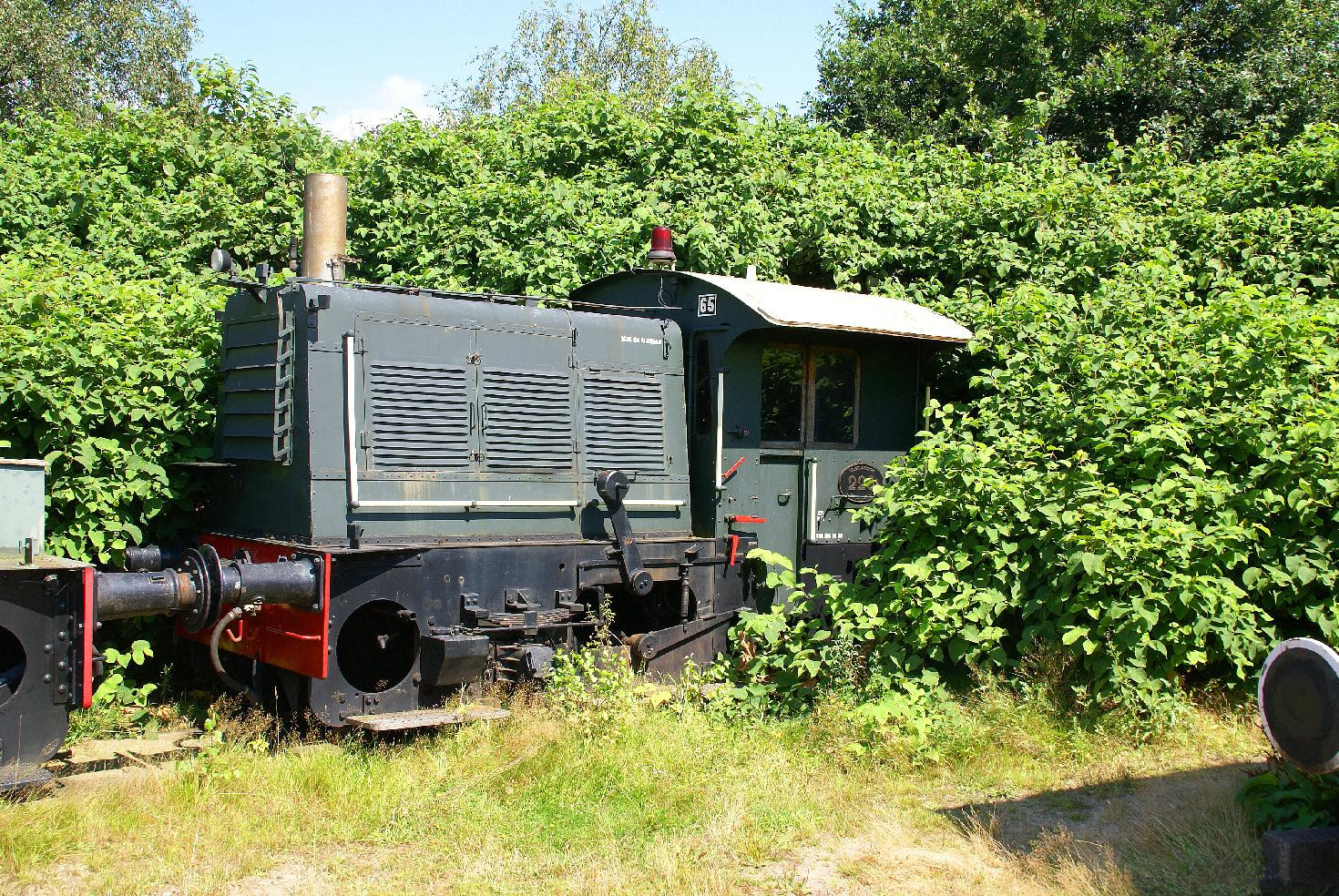 This antique locomotive at Beekbergen (The Netherlands) is overgrown by knotweed. A few years ago, this place was still Knotweed-free, see google maps.